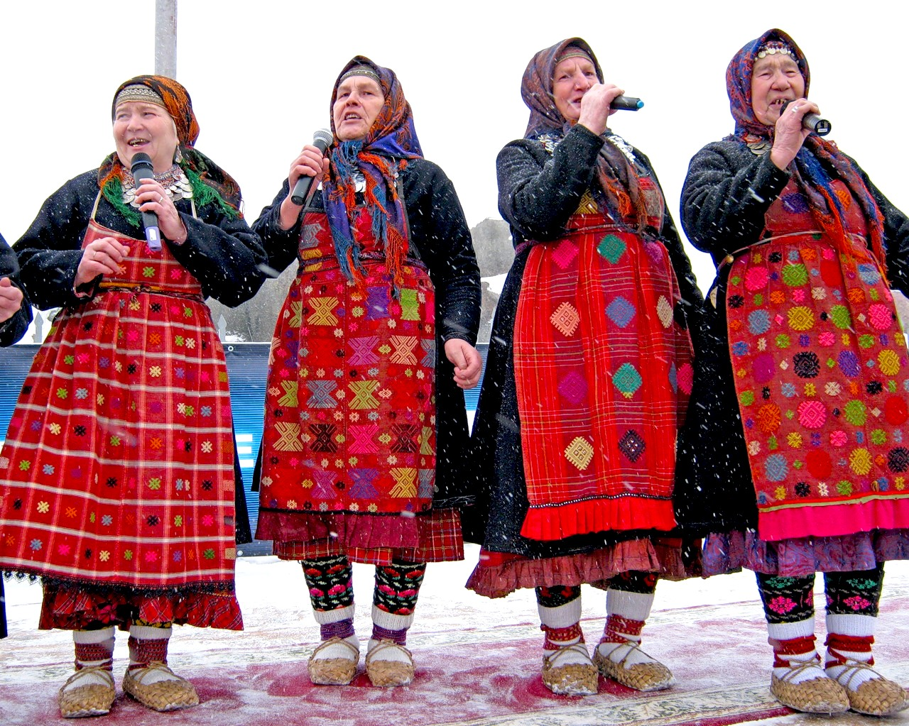 Buranovskiye Babushki